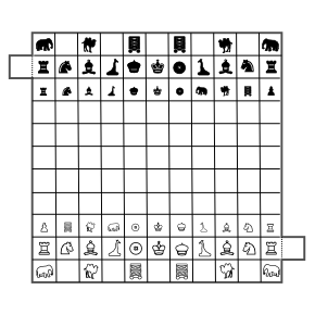 Tamerlane Chess set, starting positions.